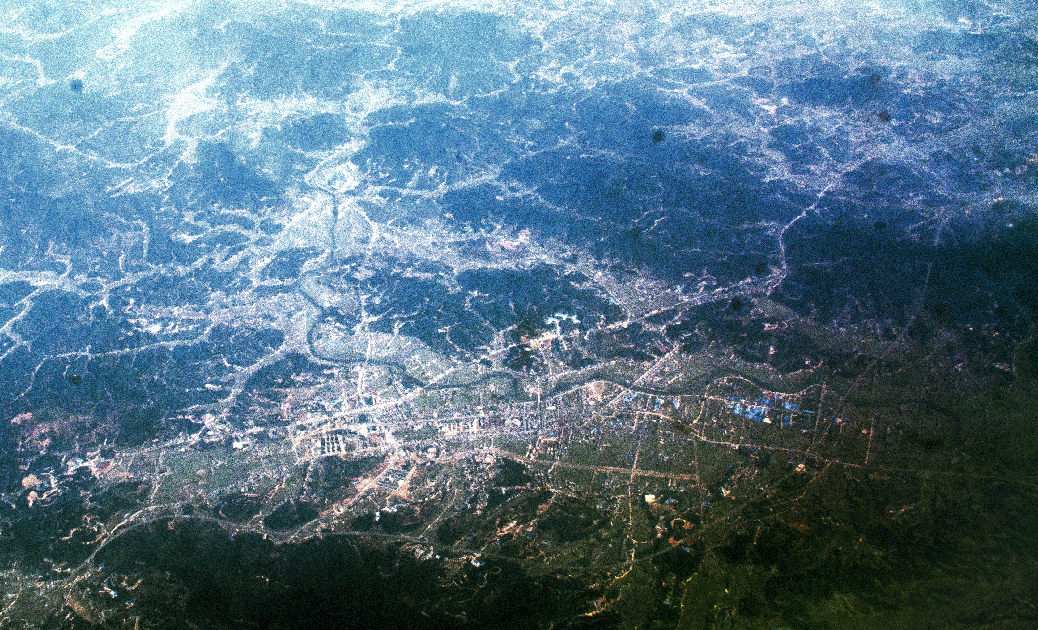 photo taken on plane